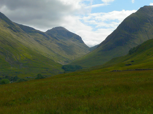 Glen Coe Looking up the Glen from the Visitor Centre.